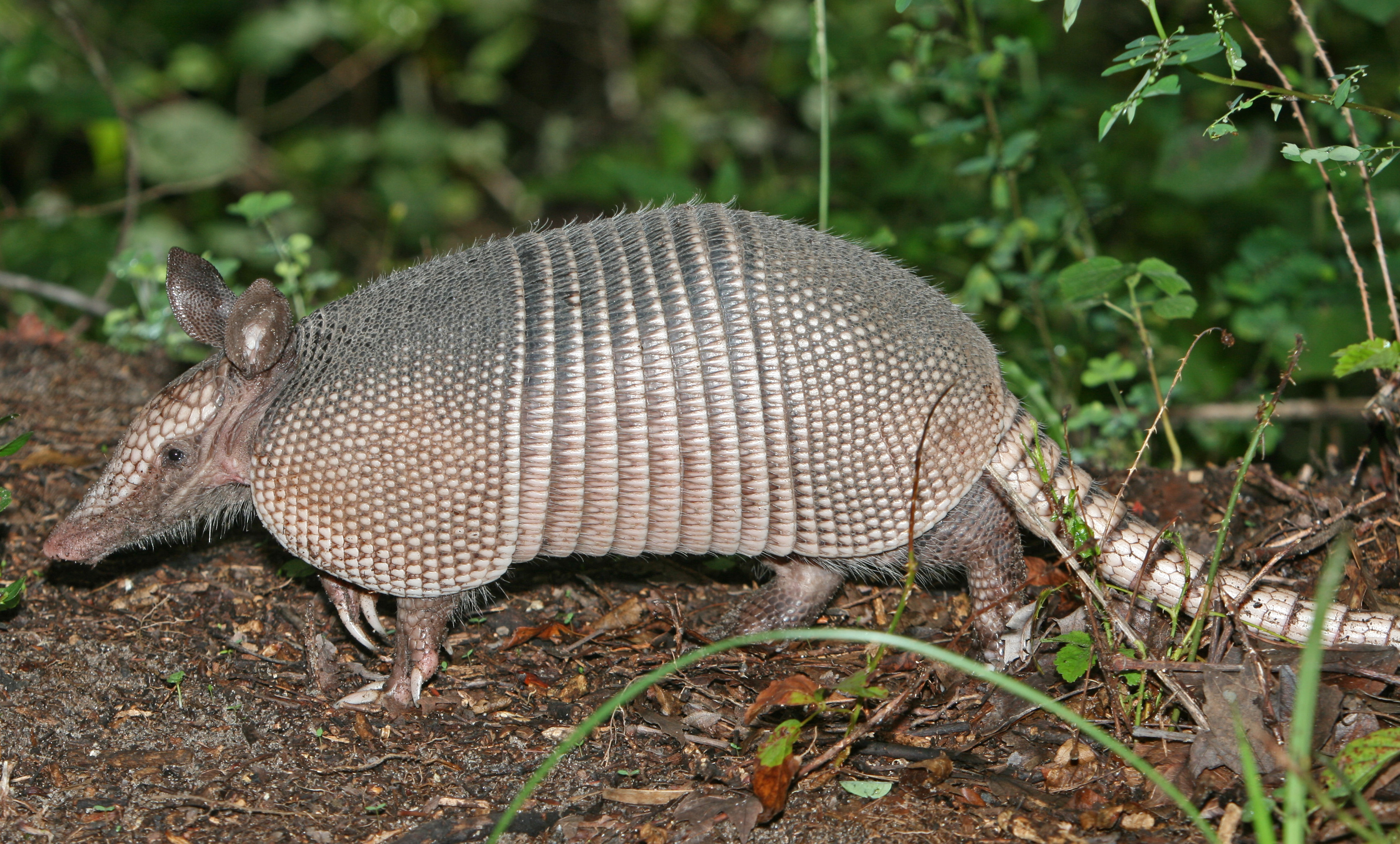 A Nine-banded Armadillo in the Green Swamp, central Florida.